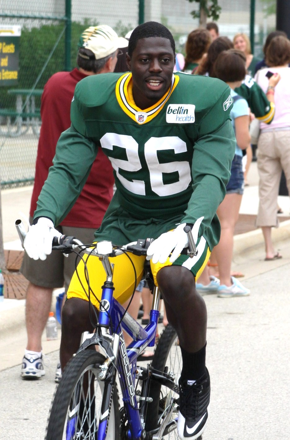 Green Bay Packers safety Charlie Peprah riding Quinn Liedeka's (14 Green Bay Wisconsin) bicycle at pre-season training camp, Green Bay Wisconsin, August 1, 2011